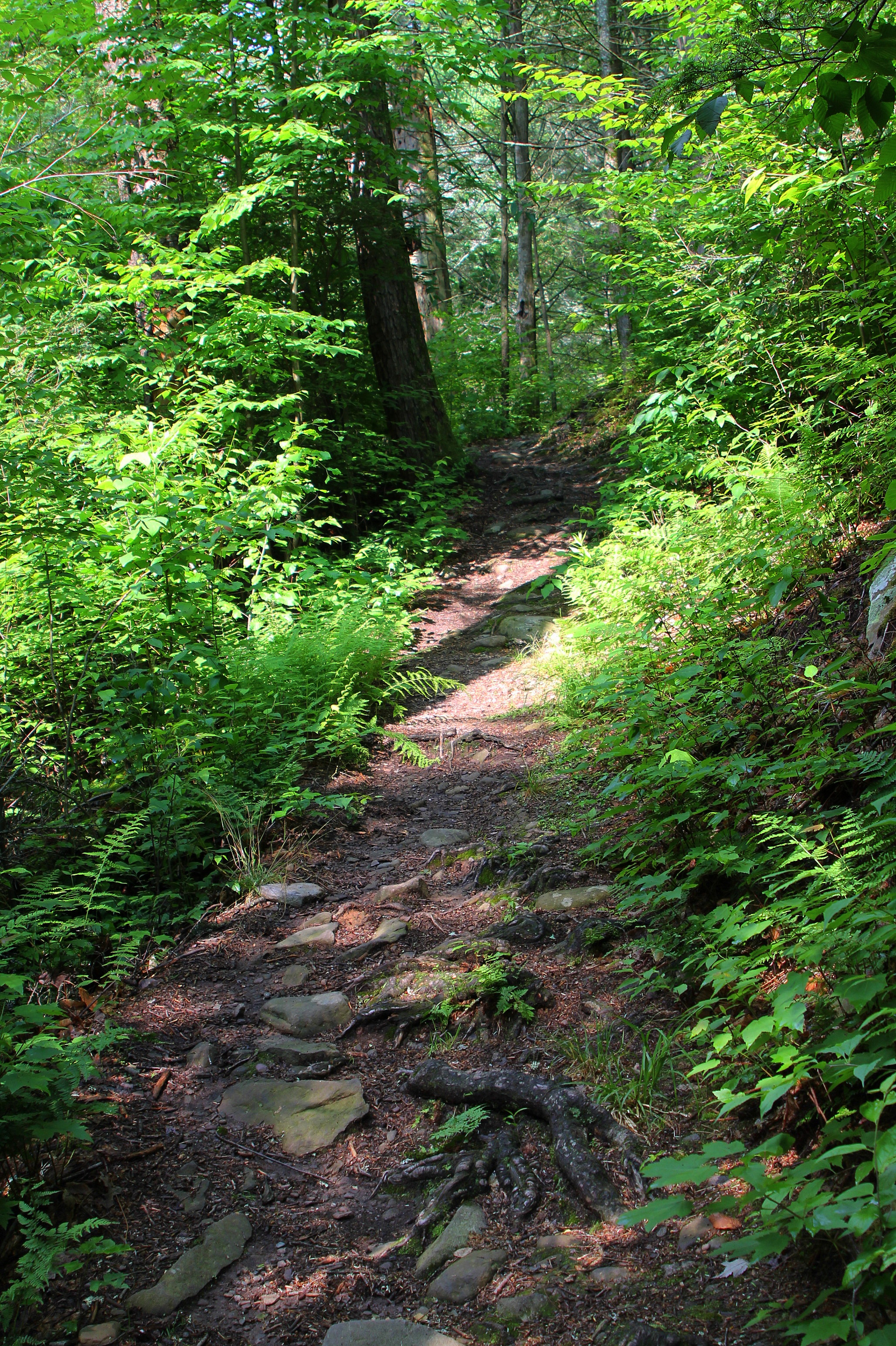 Evergreen Trail at Ricketts Glen State Park, near Boston Run